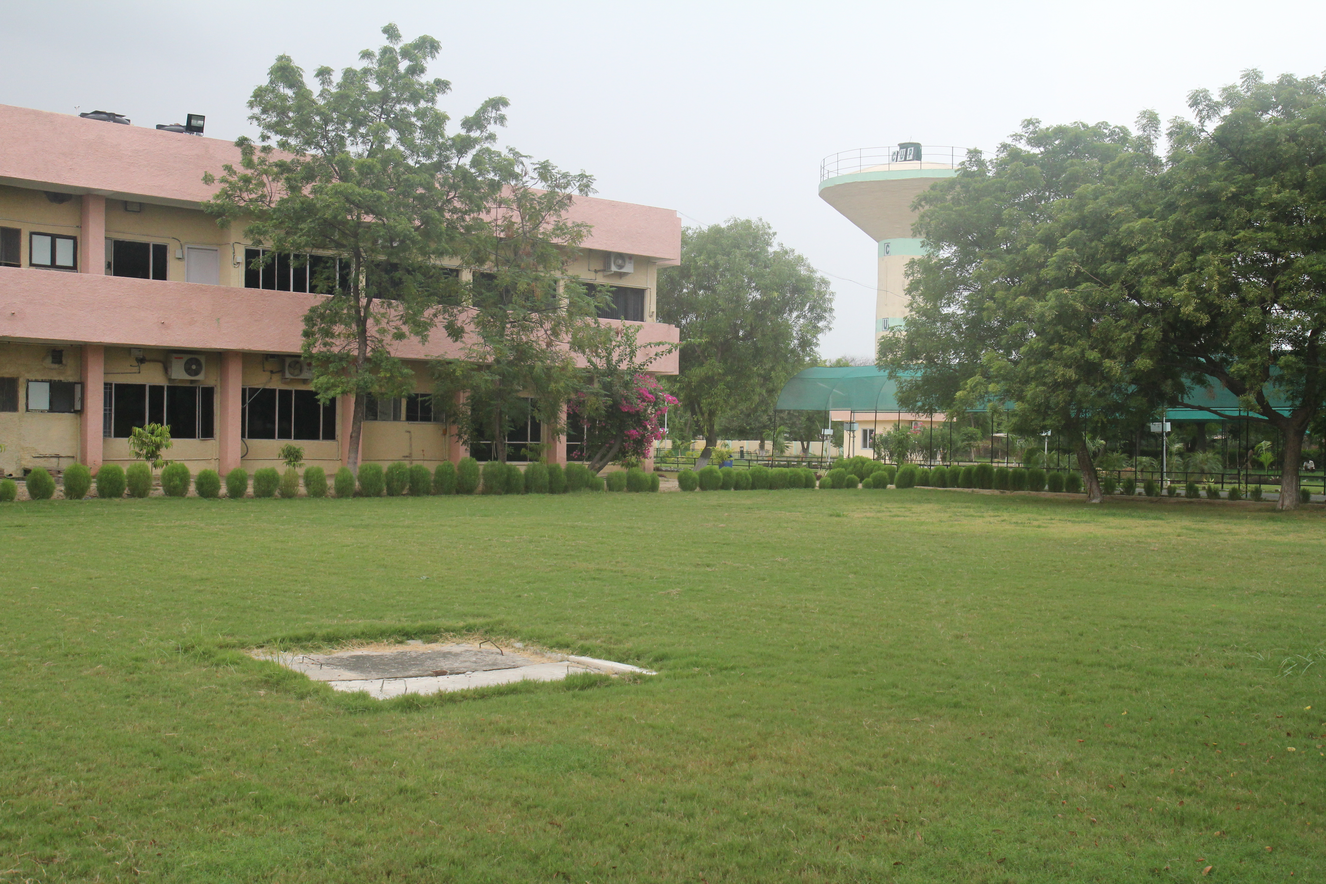 Central University of Punjab, City Campus, bathinda